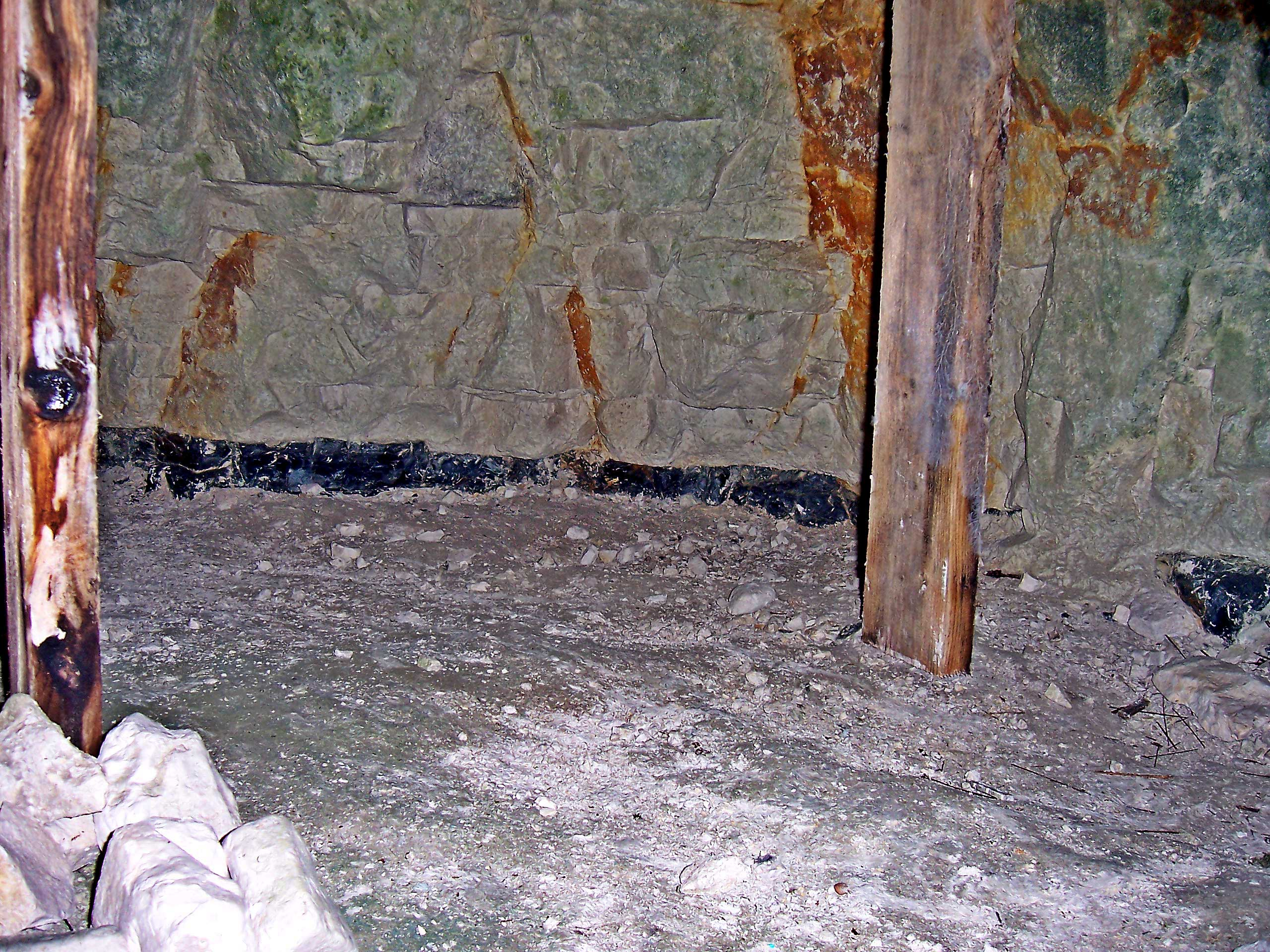 View of a seam of Flint in the Grimes Graves excavation in Brandon, England close to the border between Norfolk and Suffolk. The pit props are modern supports added when the site was excavated